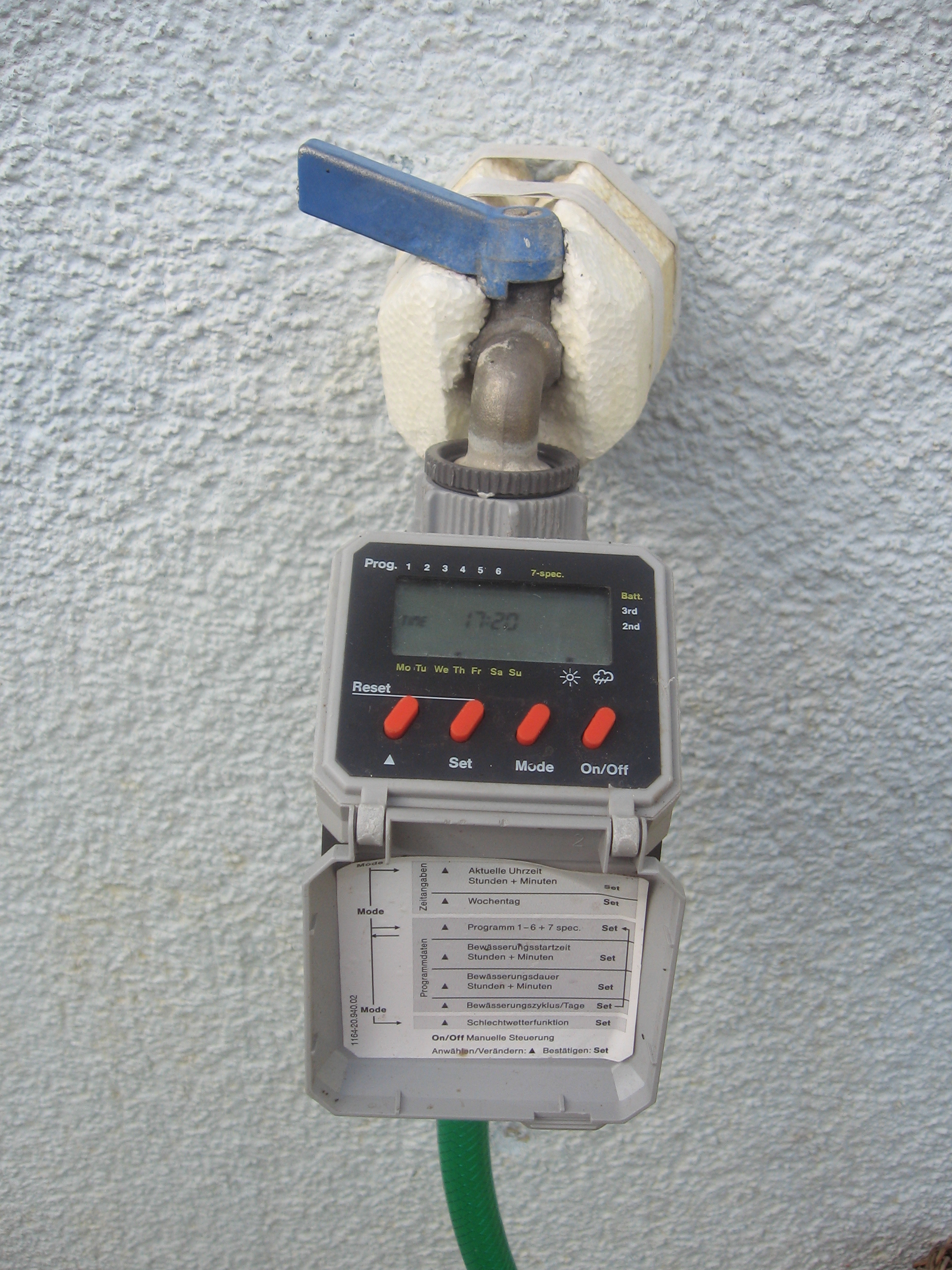 Gardena irrigation controller